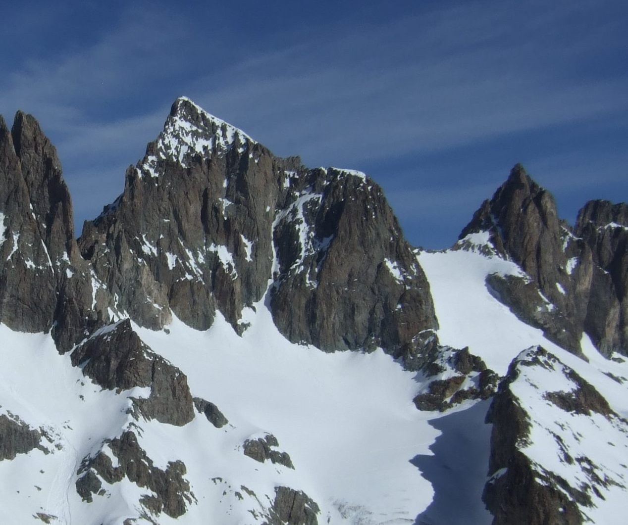 Point Brevoort, Grande Ruine, Dauphiné